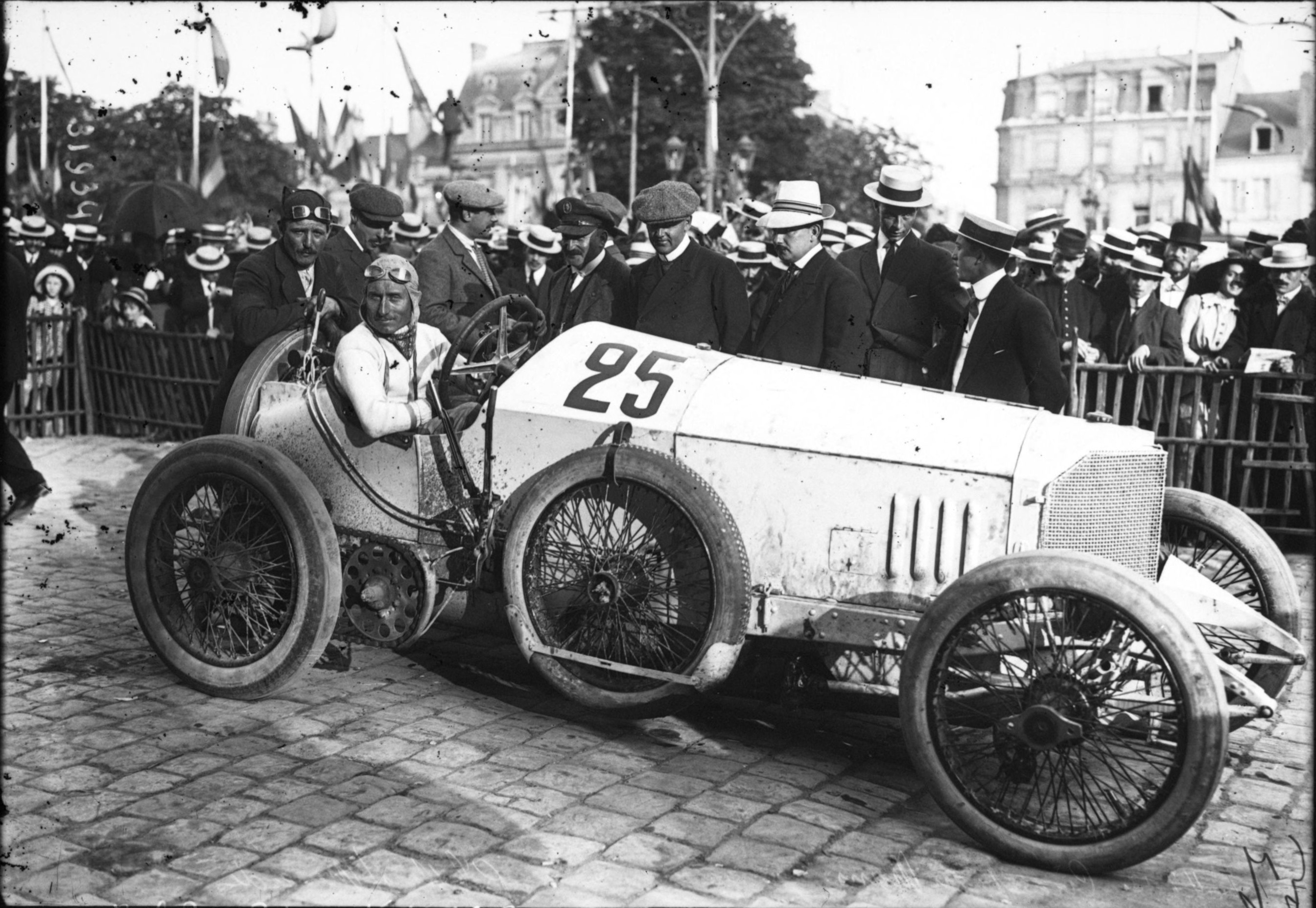 Théodore Pilette at the 1913 Grand Prix de France at Le Mans.